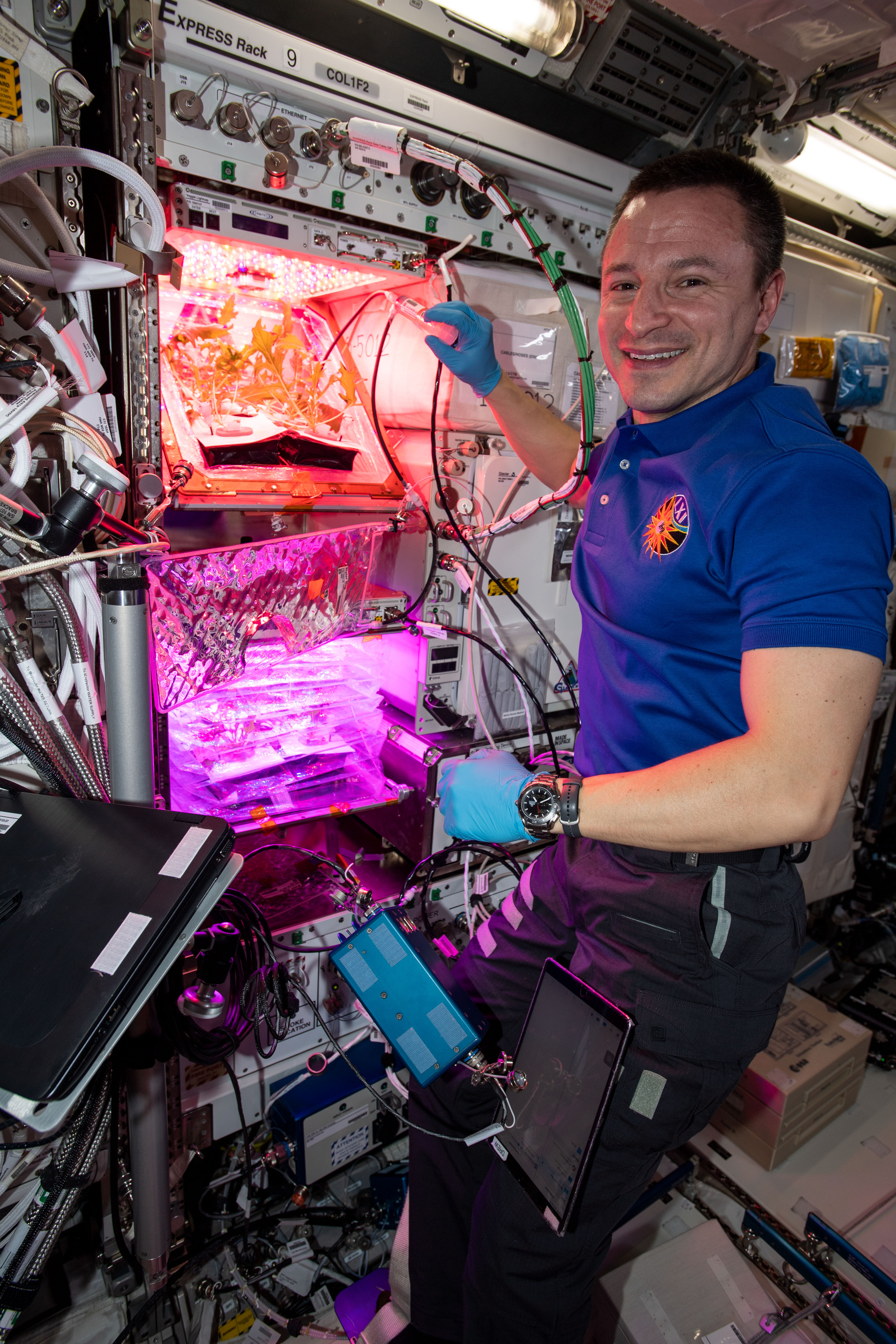 This past week NASA astronaut Andrew Morgan watered the plant pillows in which Mizuna mustard greens are growing for the Veg-04B experiment. Veg-04B focuses on the effects of light quality and fertilizer on the leafy Mizuna crop, microbial food safety, nutritional value and the taste acceptability by the crew. The space botany research is also informing NASA how to provide fresh food for crews on long-term space missions.